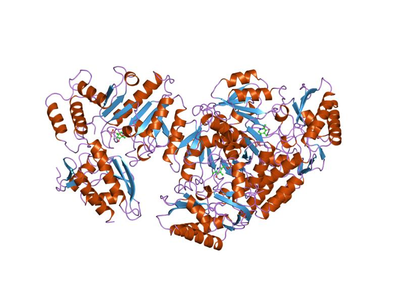 Cartoon representation of the molecular structure of protein registered with 1oat code.